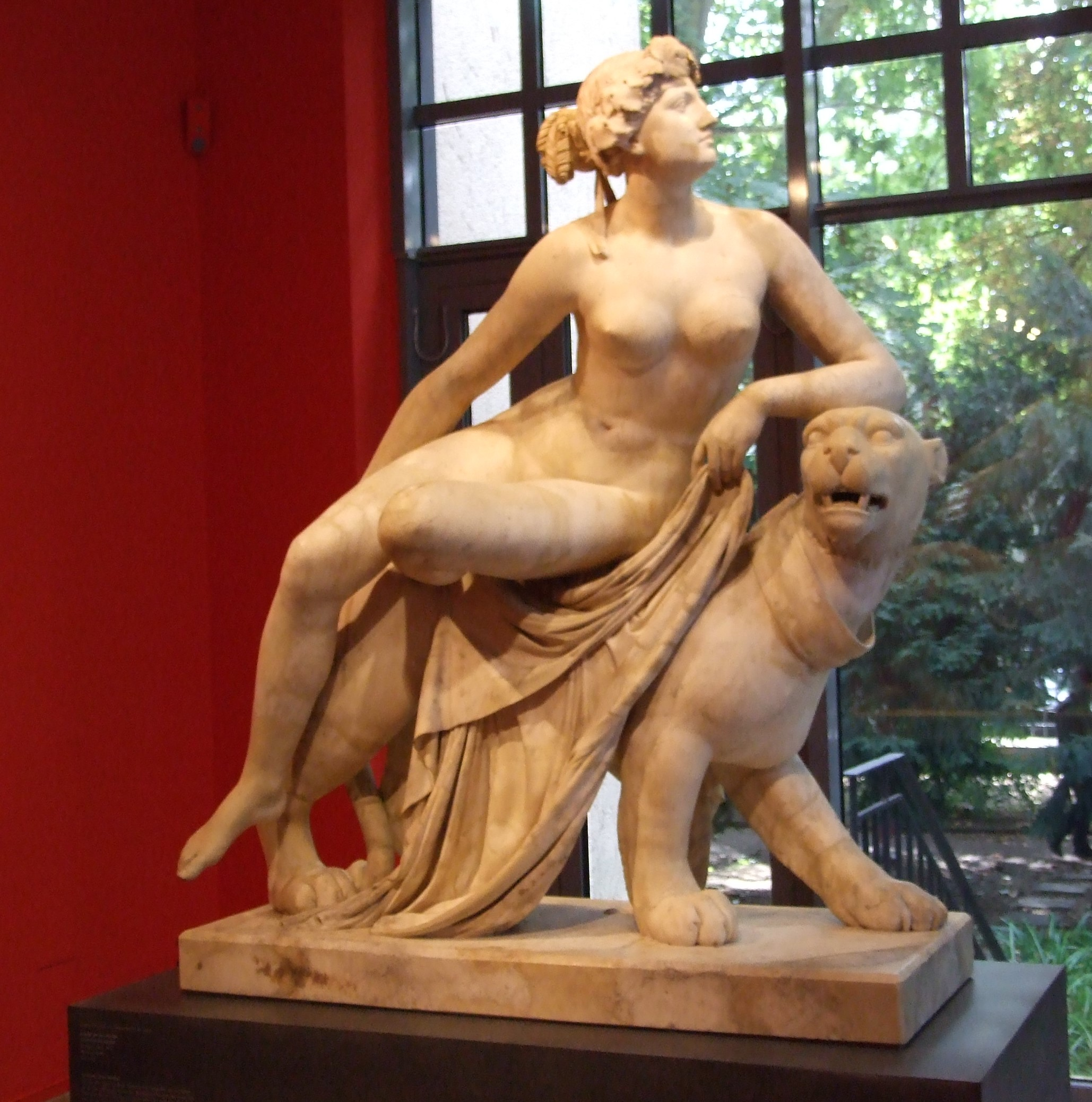 Johann Heinrich von Dannecker (1778-1841): "Ariadne on the Panther", Stuttgart 1803-1814